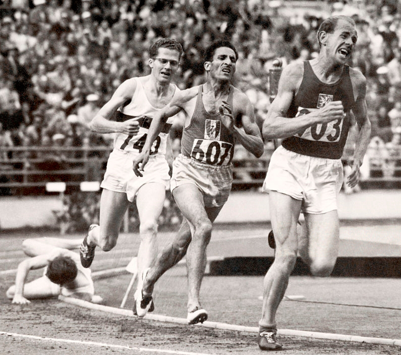 5000 m at the Helsinki Olympics. Left-right: Herbert Schade, Alain Mimoun, Emil Zátopek